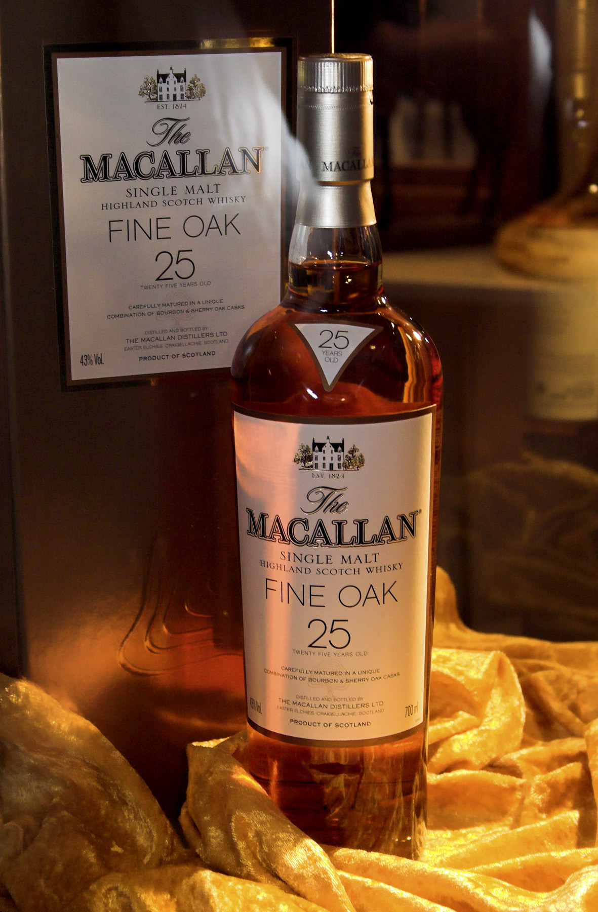 The MACALLAN Fine Oak - 25 years. Single Malt Highland Scotch Whisky. Presentation at "Interwhisky" (whisky fair, Frankfurt/Germany 2004)